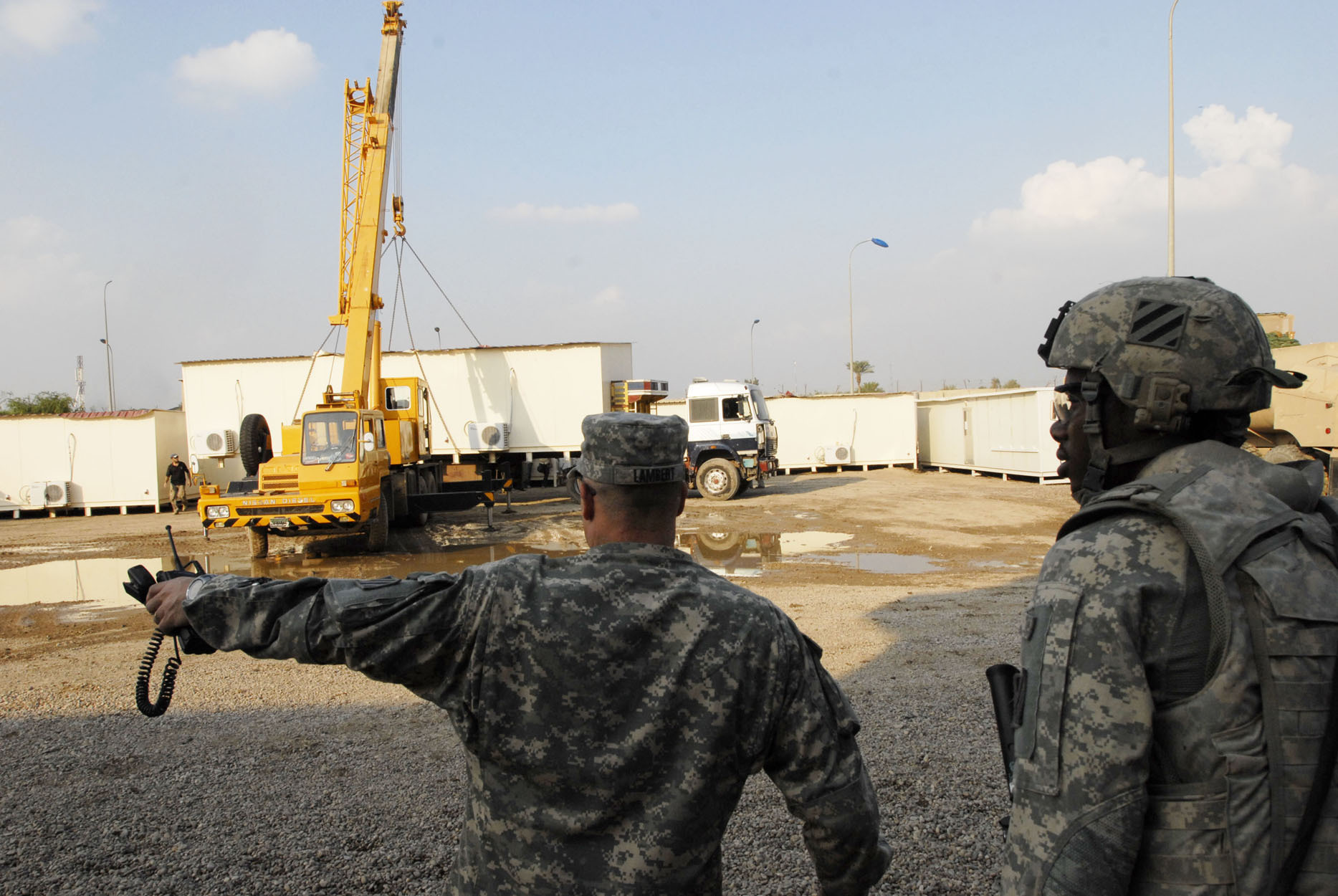 1st Sgt. Scott Lambert, an armor crewmember from Lowell, Mass., and Sgt. Chris Gibson, a food service non-commissioned officer, from Fort Stewart, Ga., both assigned to Company C, 4th Battalion, 64th Armor Regiment, direct Iraqi contractors to move armored containerized housing units, Oct. 30, 2008, onto a joint security station in the Risalah community of the Rashid District in southern Baghdad. The "Tuskers" Battalion of the 64th Armor Regt., attached to the 1st Brigade Combat Team, 4th Infantry Division, Multi-National Division - Baghdad, are closing combat outposts and joint security stations throughout southwestern Baghdad as Iraqi security forces transitioned into the leading role for security operations in the Rashid District.